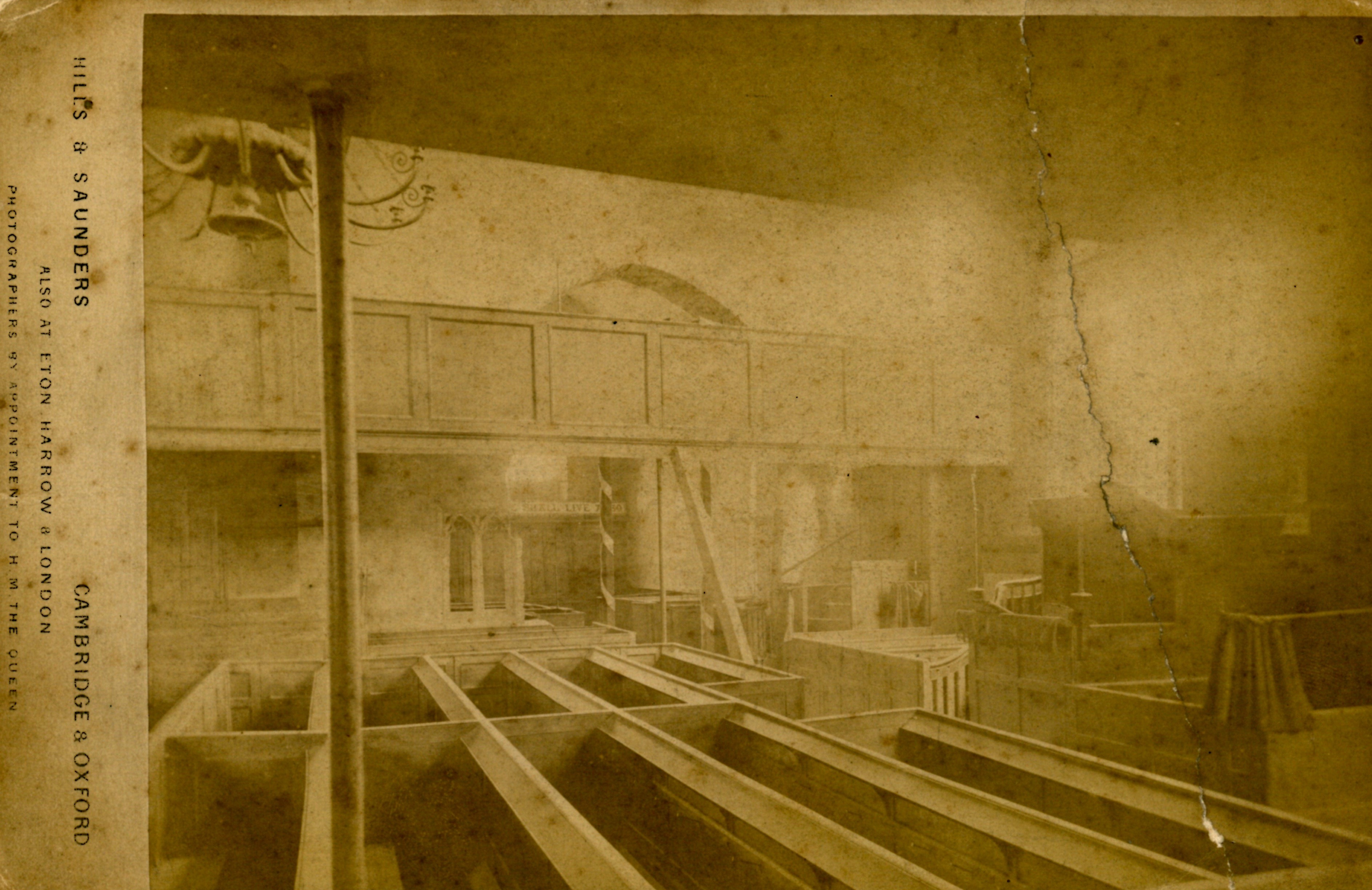 The original Anglo-Saxon church of St Giles' completely obscured by post-reformation additions.